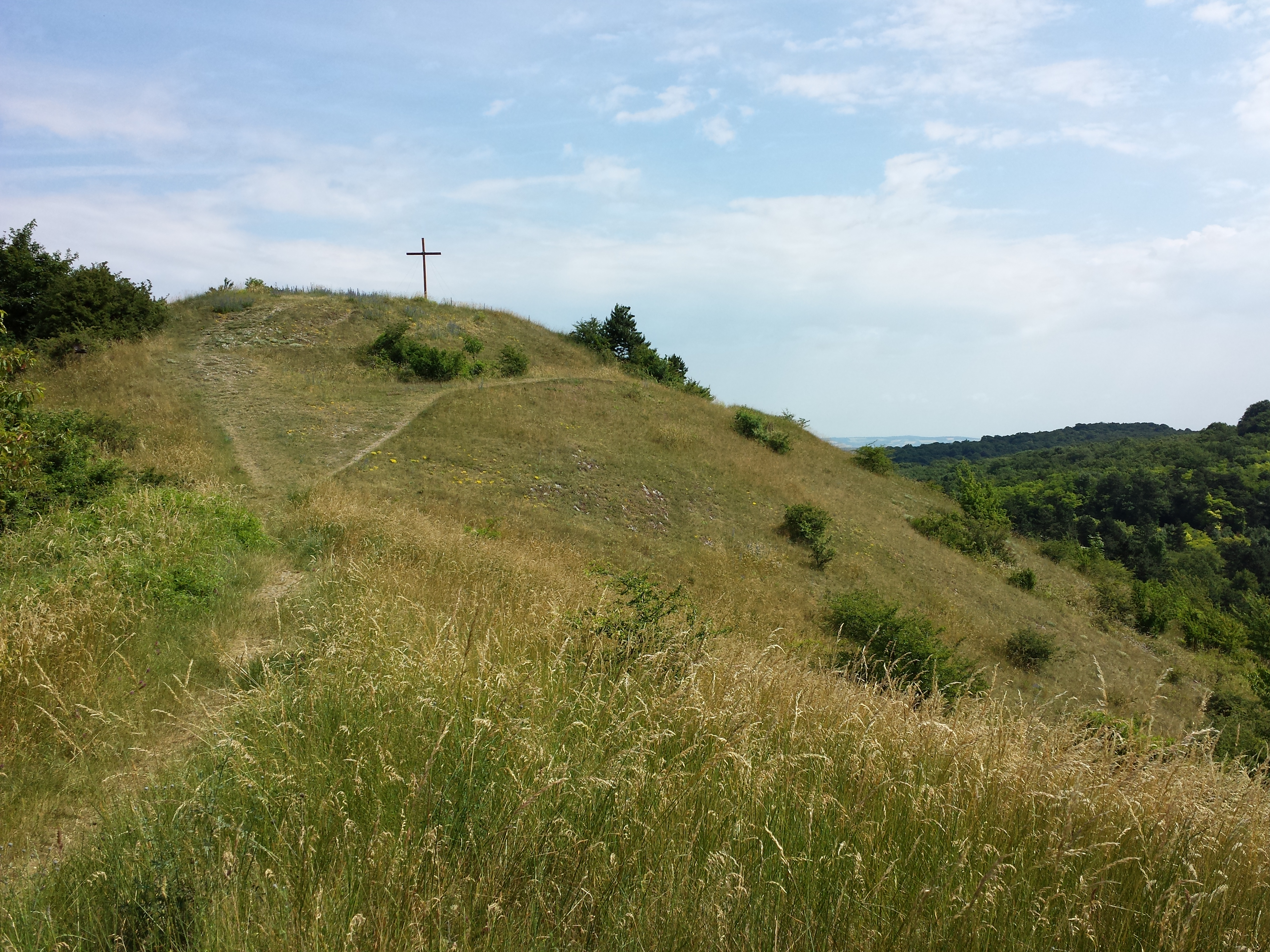 Hausberg near Buschberg, Leiser Berge, district Mistelbach, Lower Austria - ca. 450 m a.s.l. Dry grassland on lime stone